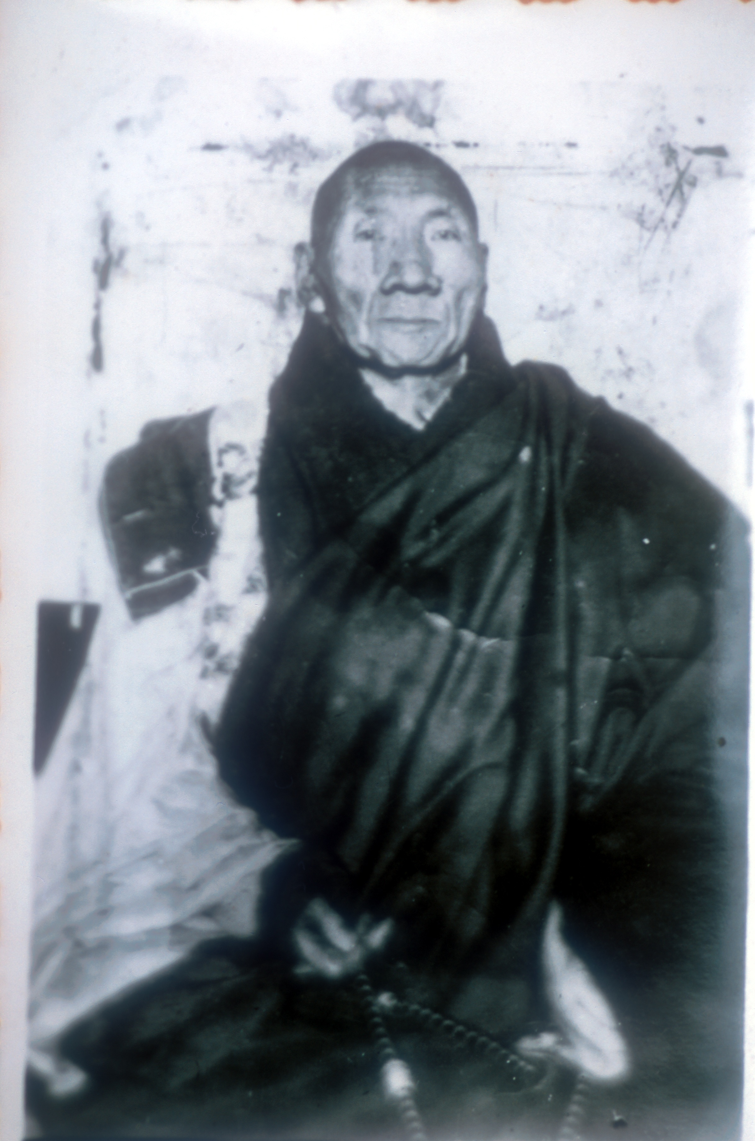 The Fifth Dzogchen Drubwang, Tubten Chokyi Dorje b.1872 - d.1935